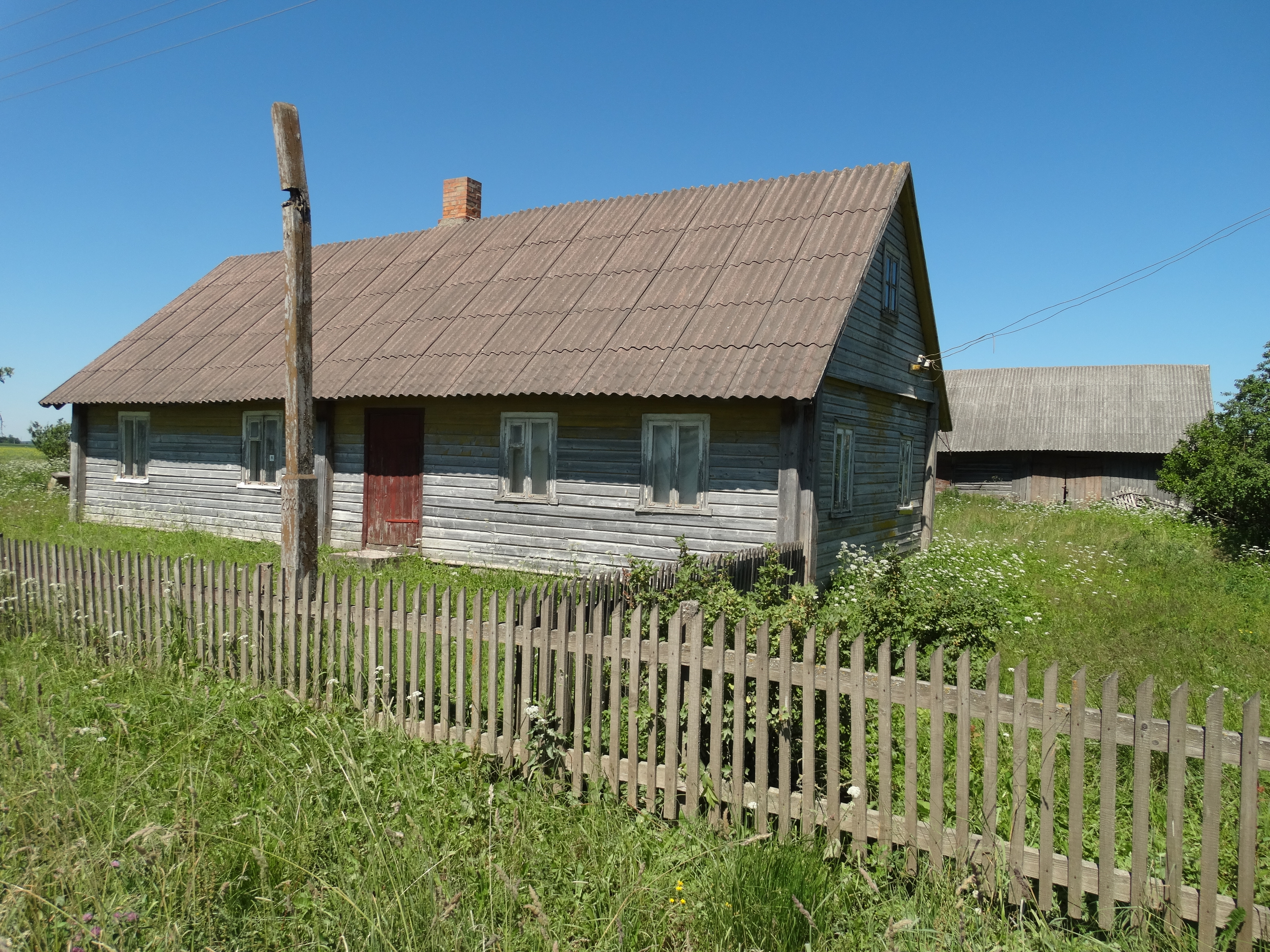 Lepšiškė, Raseiniai District, Lithuania